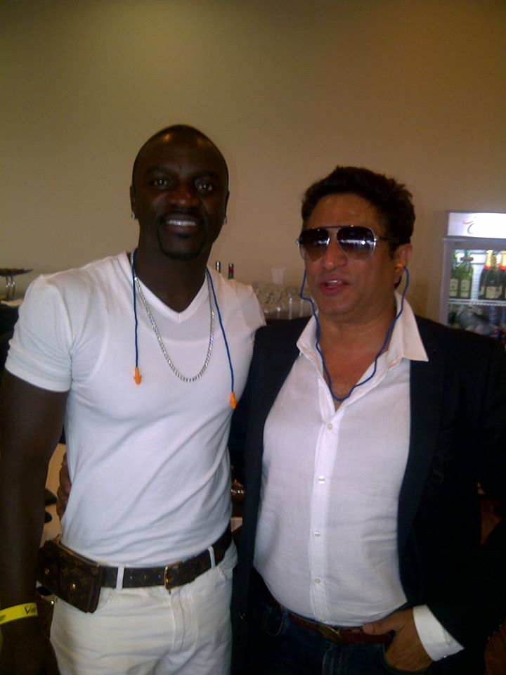 anand raj anand with akon